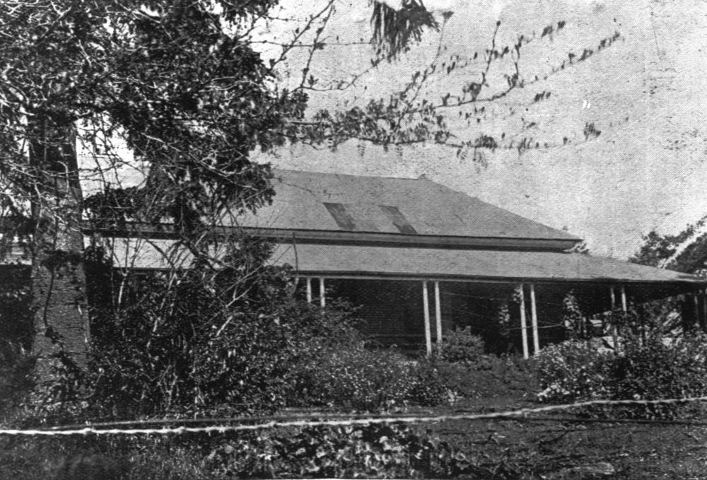 Homestead on Kilcoy Station, 1902 Kilcoy Station was established by Louis Hope, grazier, sugar miller and planter, who owned Kilcoy pastoral property from 1858 until 1894.